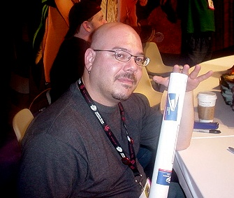 Greg Rucka, well-known comic-book writer and novelist, known for his period working in titles such as Queen and Country, Adventures of Superman, Wonder Woman and the making of Infinite Crisis.